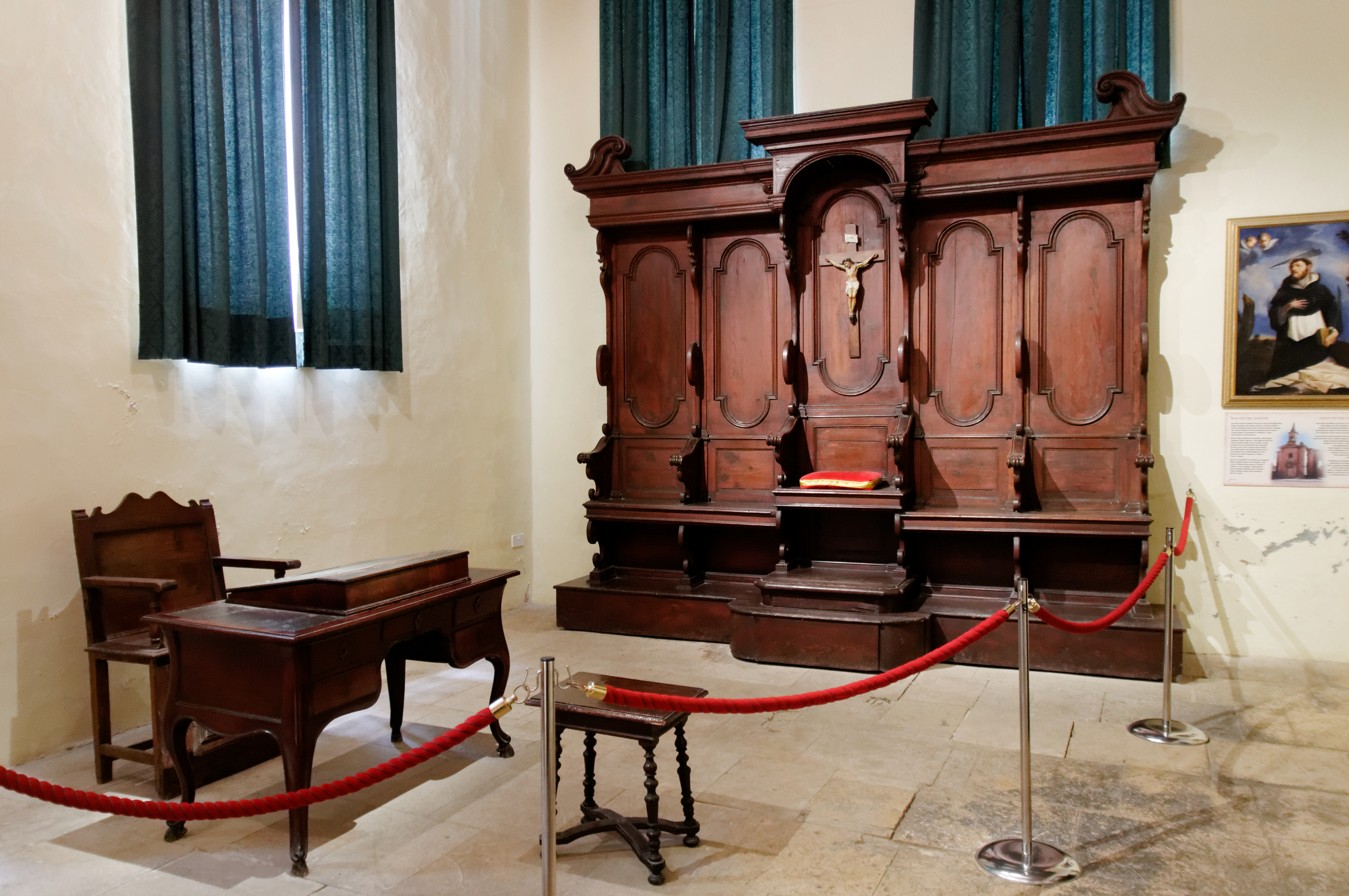 Tribunal, Inquisitor's palace in Vittoriosa (Birgu), Malta.